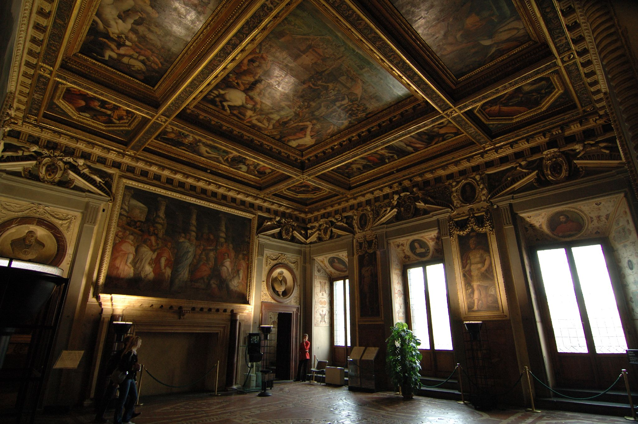 see above